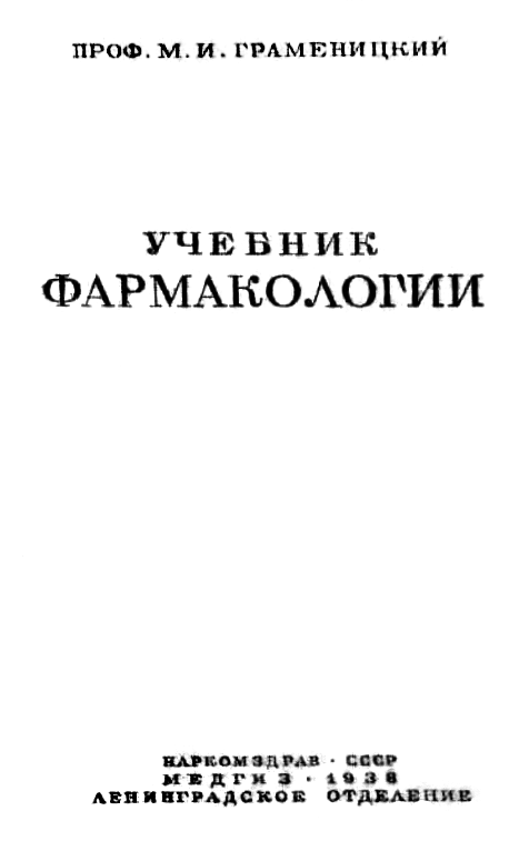 Gramenitsky M. I. Pharmacology tutorial. 1938.